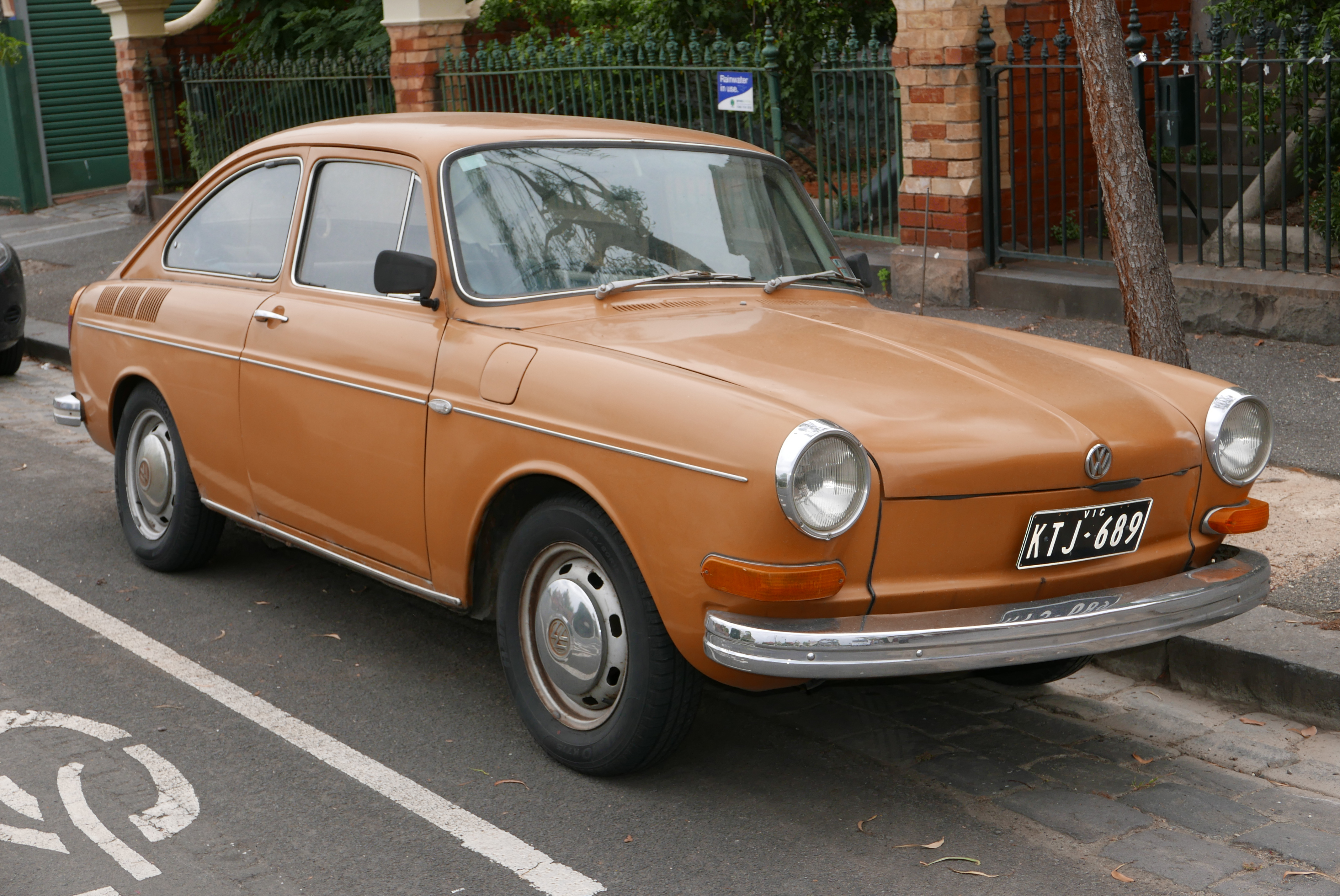 1970 Volkswagen 1600 (Type 3) TL fastback sedan. Photographed in Princes Hill, Victoria, Australia. Vehicle registration enquiry results Jurisdiction Victoria Registration KTJ689 Chassis code 3102225182 Engine code T0794751 Compliance date 1970-11 Year of manufacture 1970